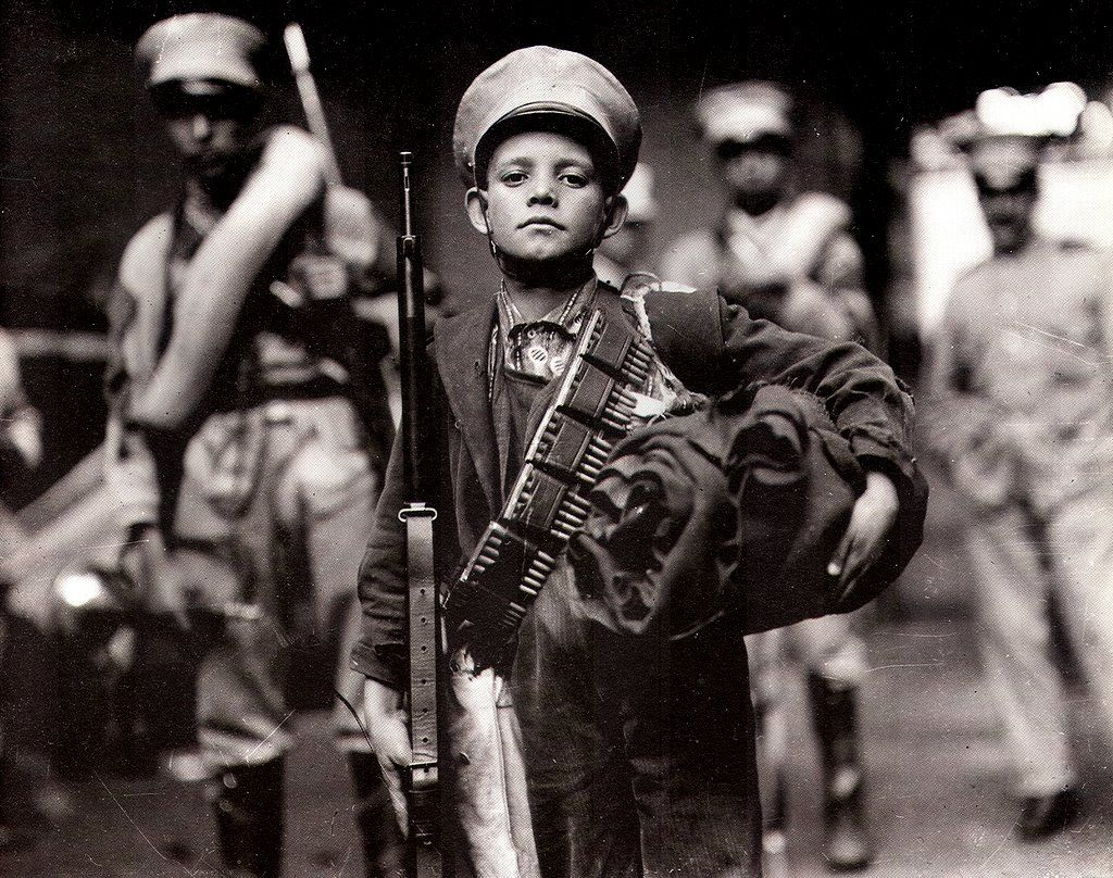 A boy with mexican federal army ammunition (there is no reason to believe that he was a real soldier). 1913г. Erroneamente han realcionado la fotografía con el beato cristero José Sánchez del Río